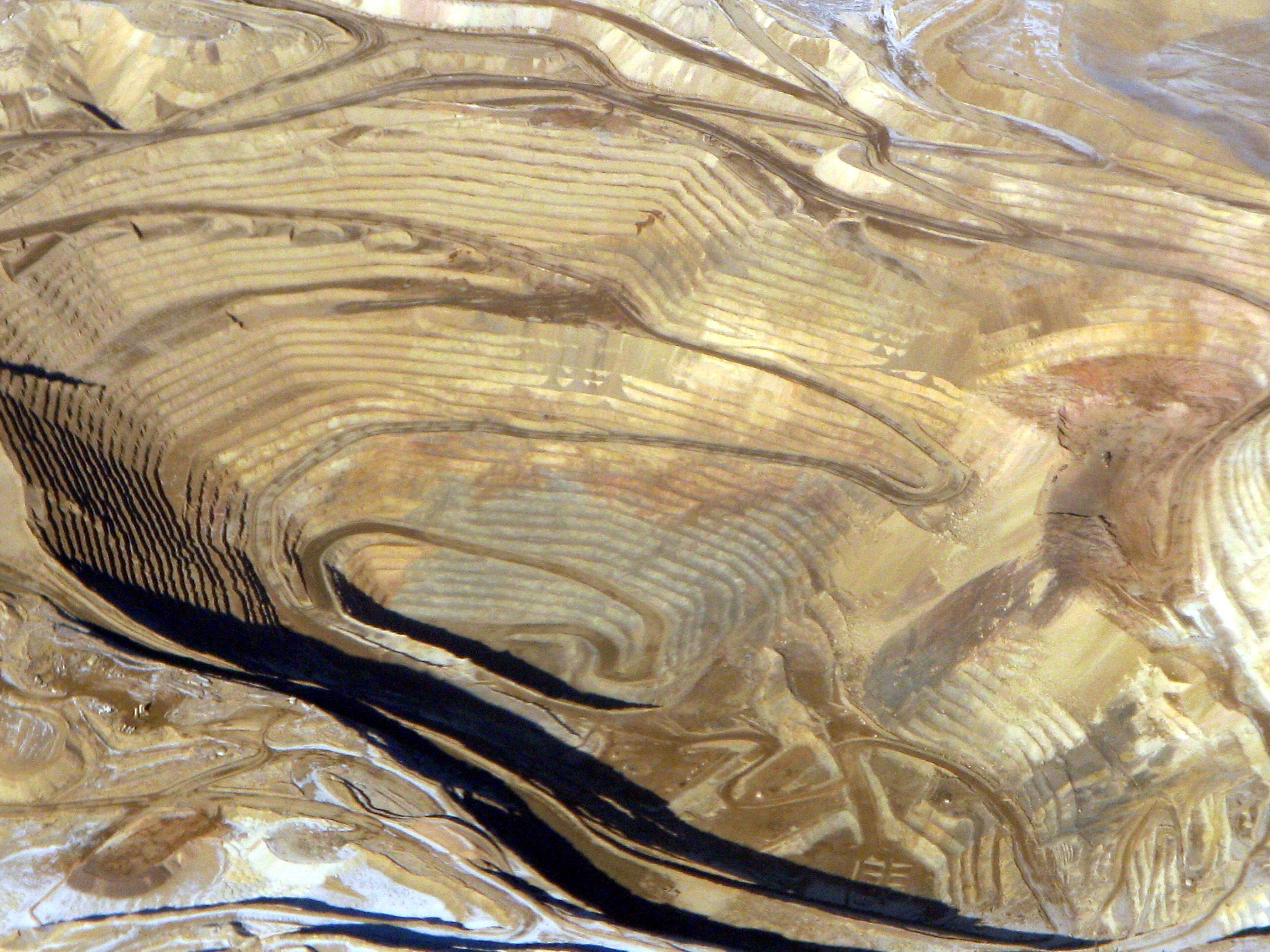 Round Mountain gold mine, aerial photo, 2008. Located in Big Smokey Valley, Nevada. Owned by Kinross Gold Corporation and Homestake Mining Company.